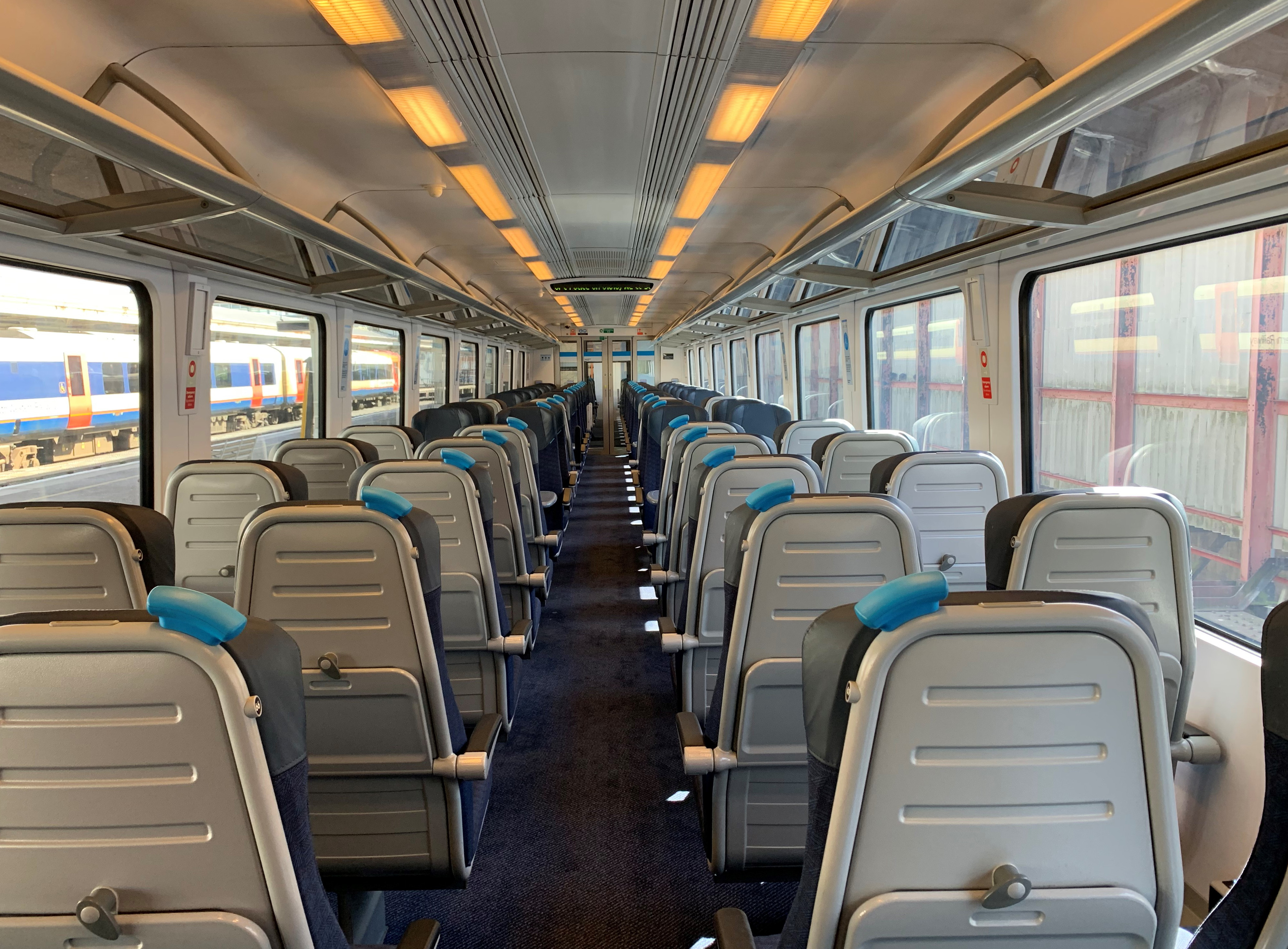 South Western Railway fully refurbished Class 444 Standard Class interior at Portsmouth Harbour.